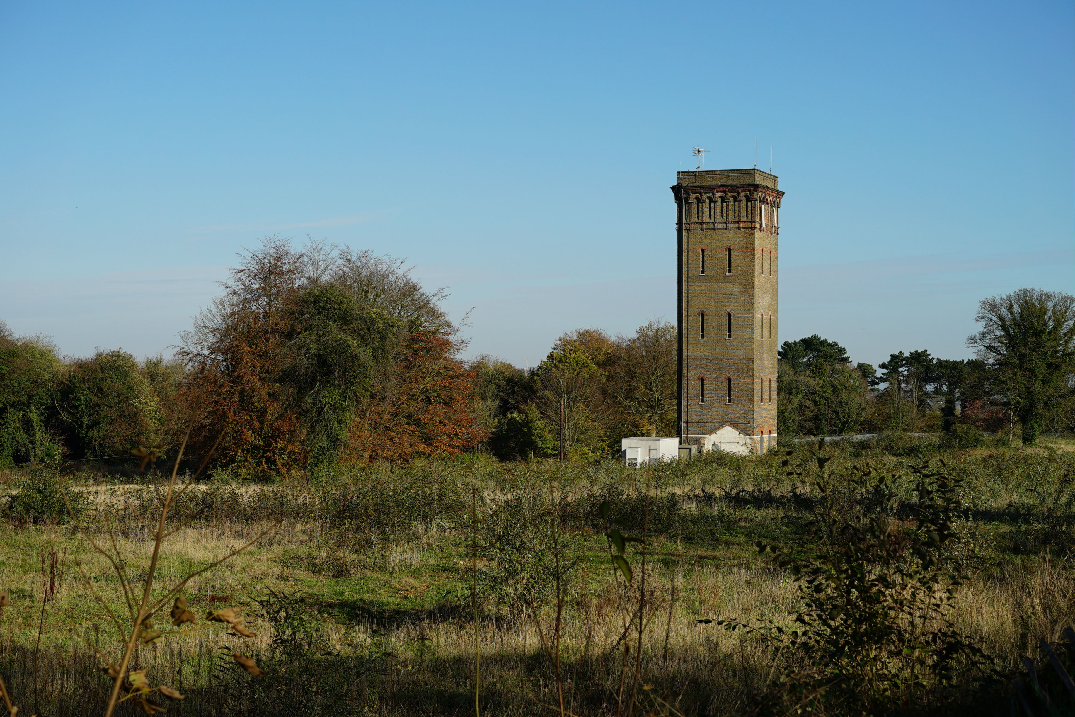 Cane Hill Asylum water tower in Coulsdon, South London. The hospital was demolished in 2010, leaving only the chapel, administration building and water tower.